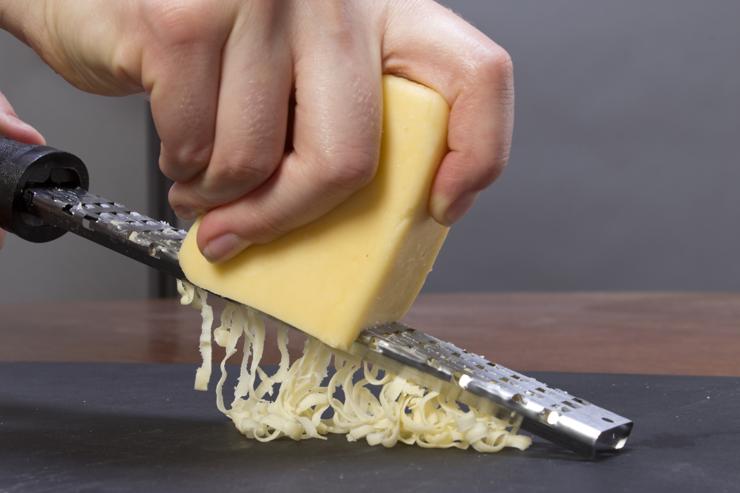 Grating Soft Cheese